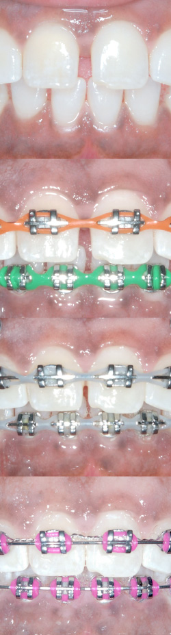 Braces can close spaces between teeth (dental diastema). As an alternative to veneers, orthodontic treatment closes the space between teeth naturally. Gaps are closed in this typical orthodontic sequence as teeth are brought together.